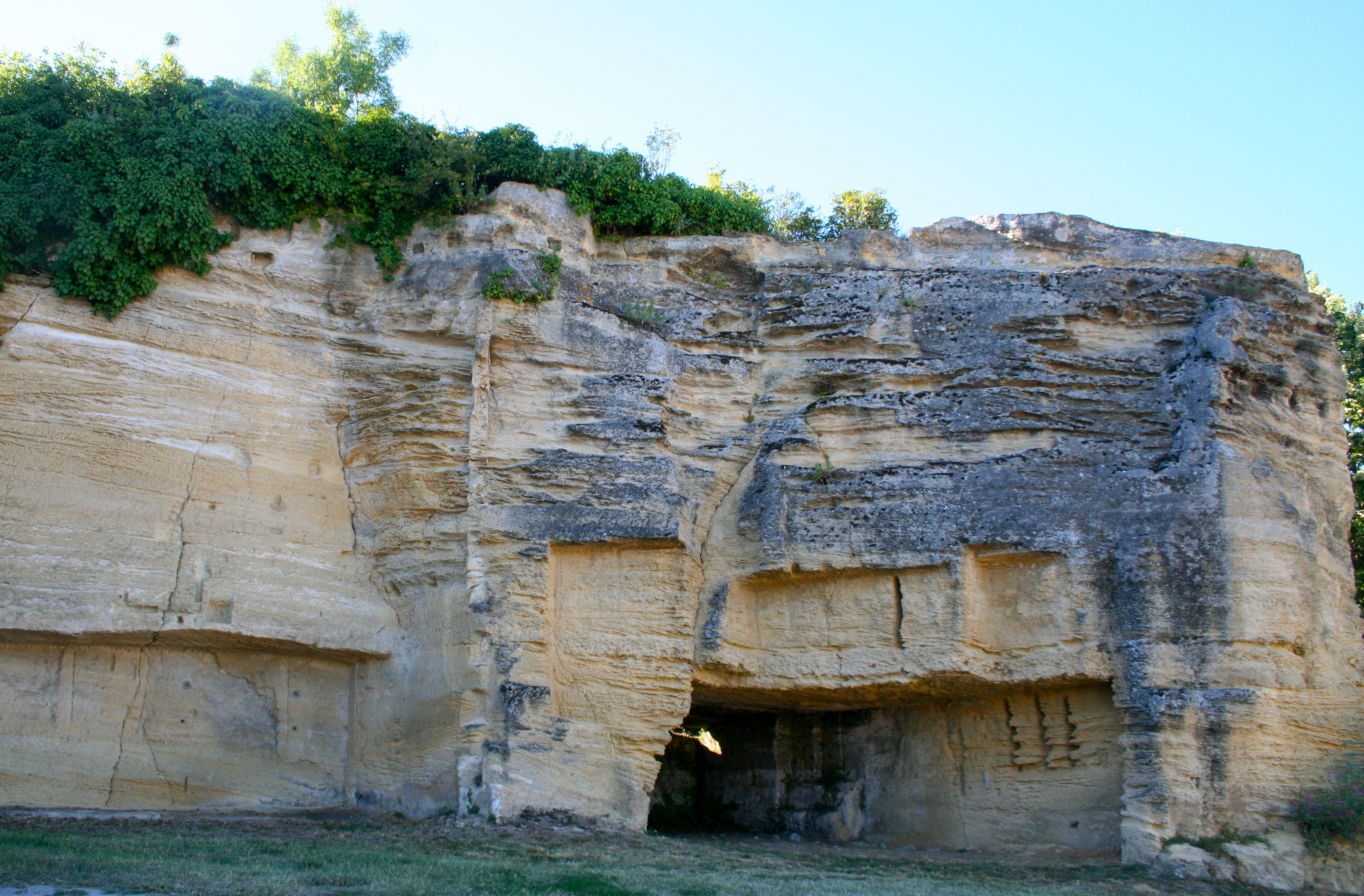 Caves created by removing sandstone from a quarry.